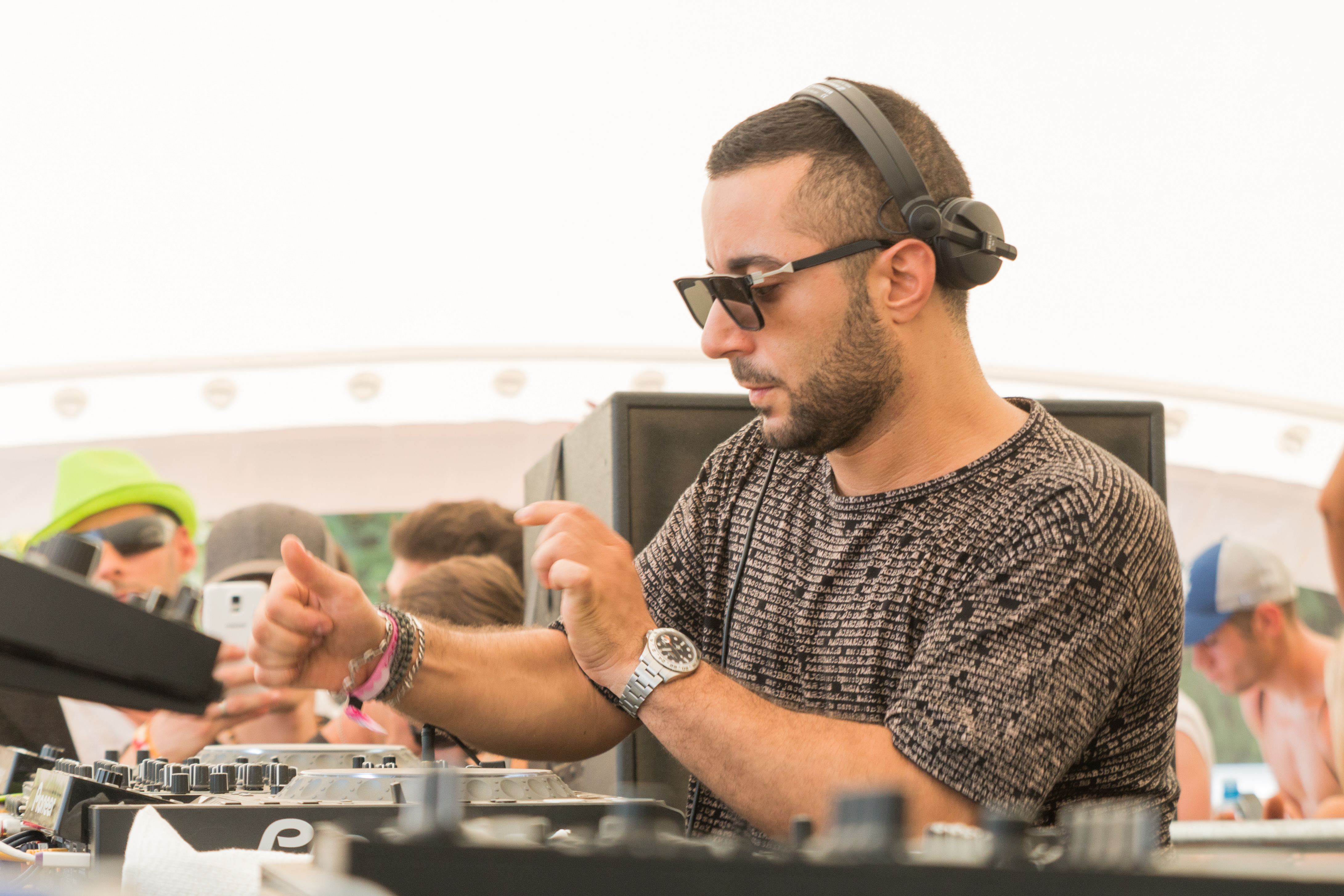 Joseph Capriati at the Sea You Festival in Freiburg im Breisgau on July 19th, 2015.